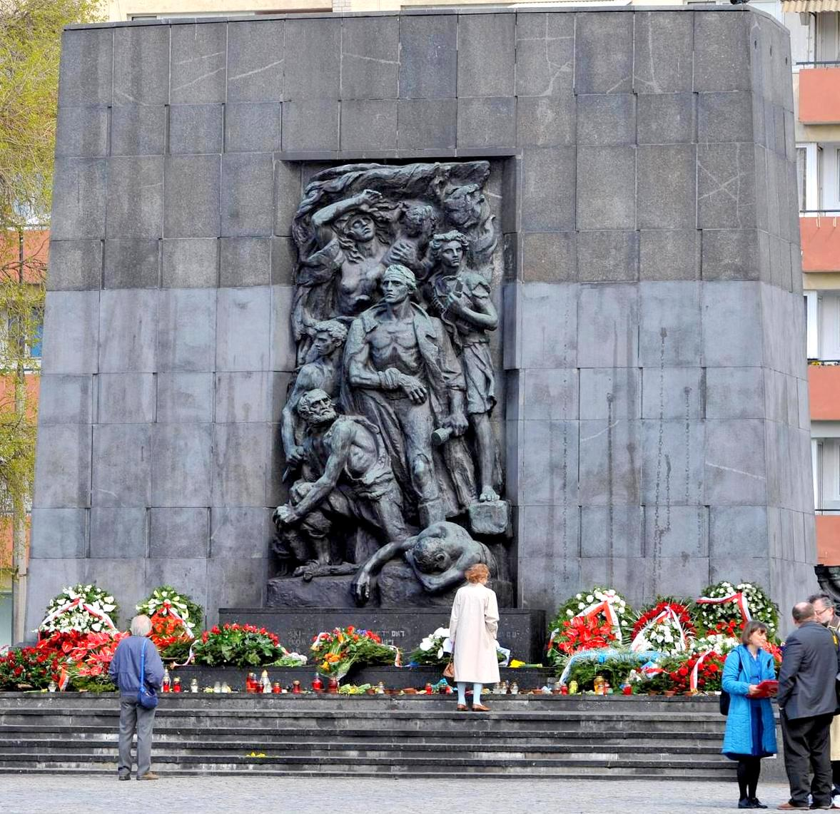 Ghetto Heroes' Memorial in Warsaw commemorating the Warsaw ghetto uprising (sculptor: Natan Rapaport, architect: Leon Marek Suzin)